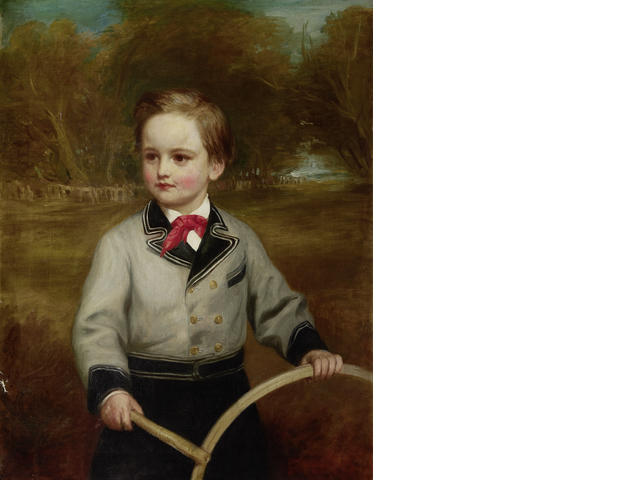 Portrait of Travers Buxton Jr. in 1871 by Eden Upton Eddis (British, 1812-1901)